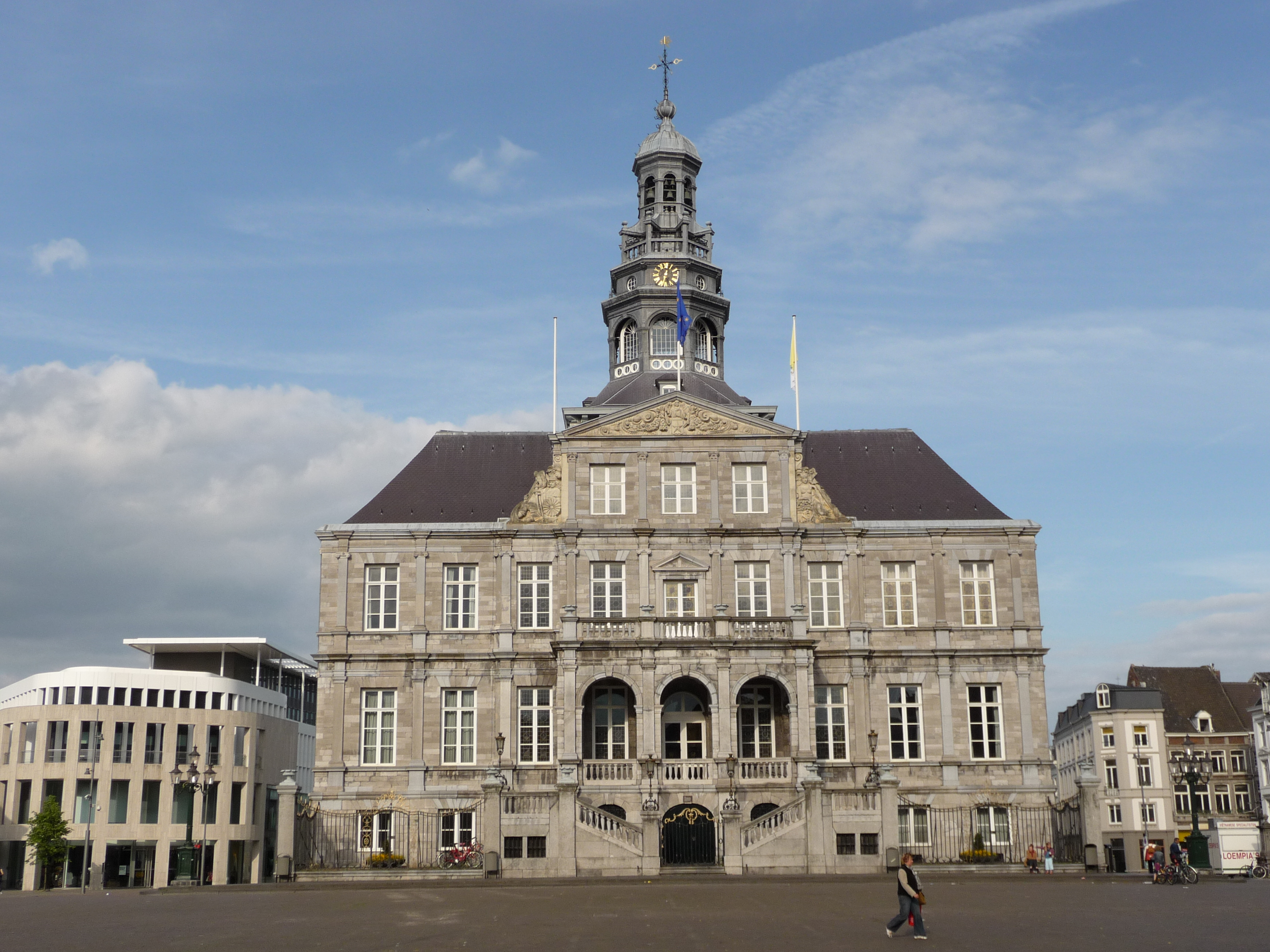 Maastricht Town Hall, The Netherlands.With Hemony carillons